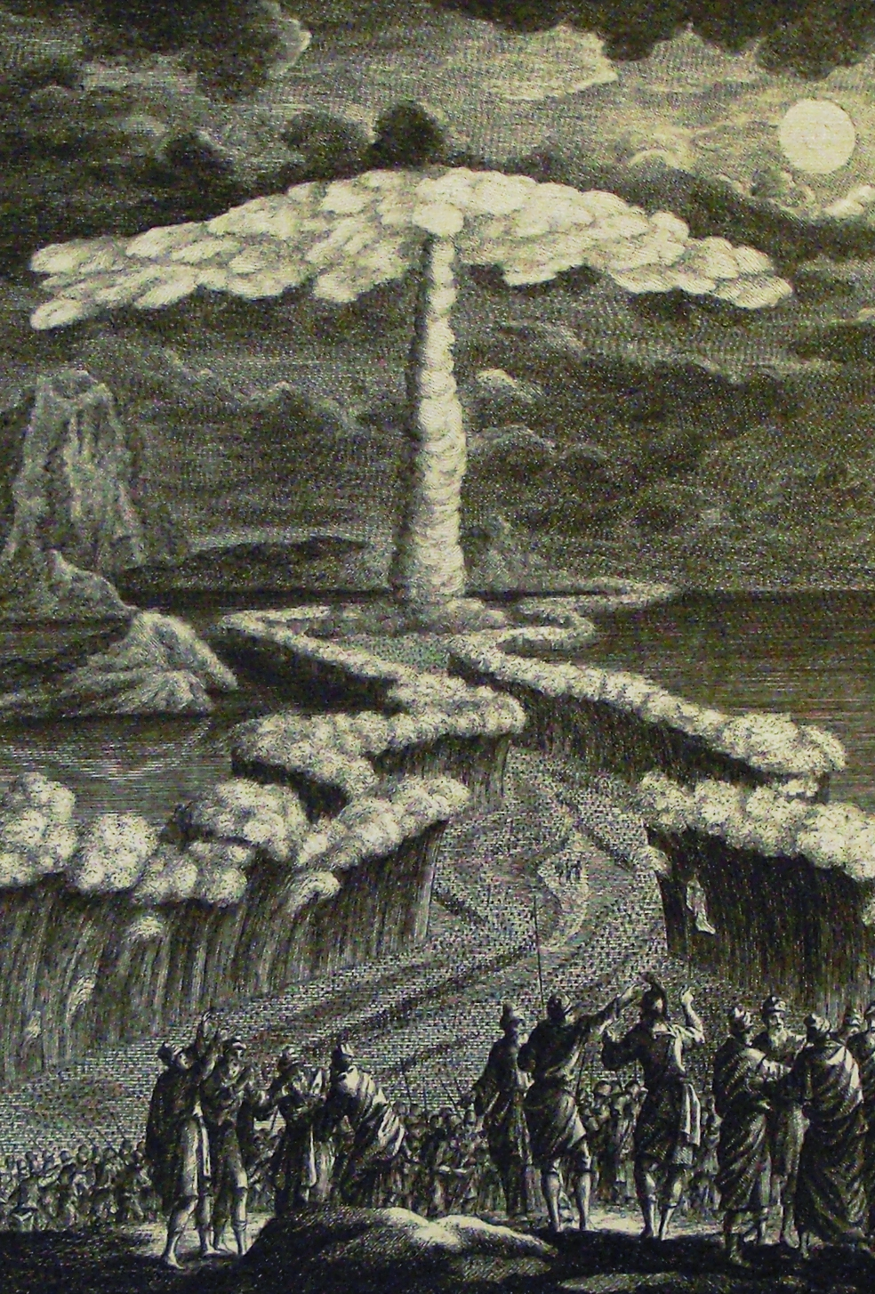 A print from the Phillip Medhurst Collection of Bible illustrations in the possession of Revd. Philip De Vere at St. George’s Court, Kidderminster, England.